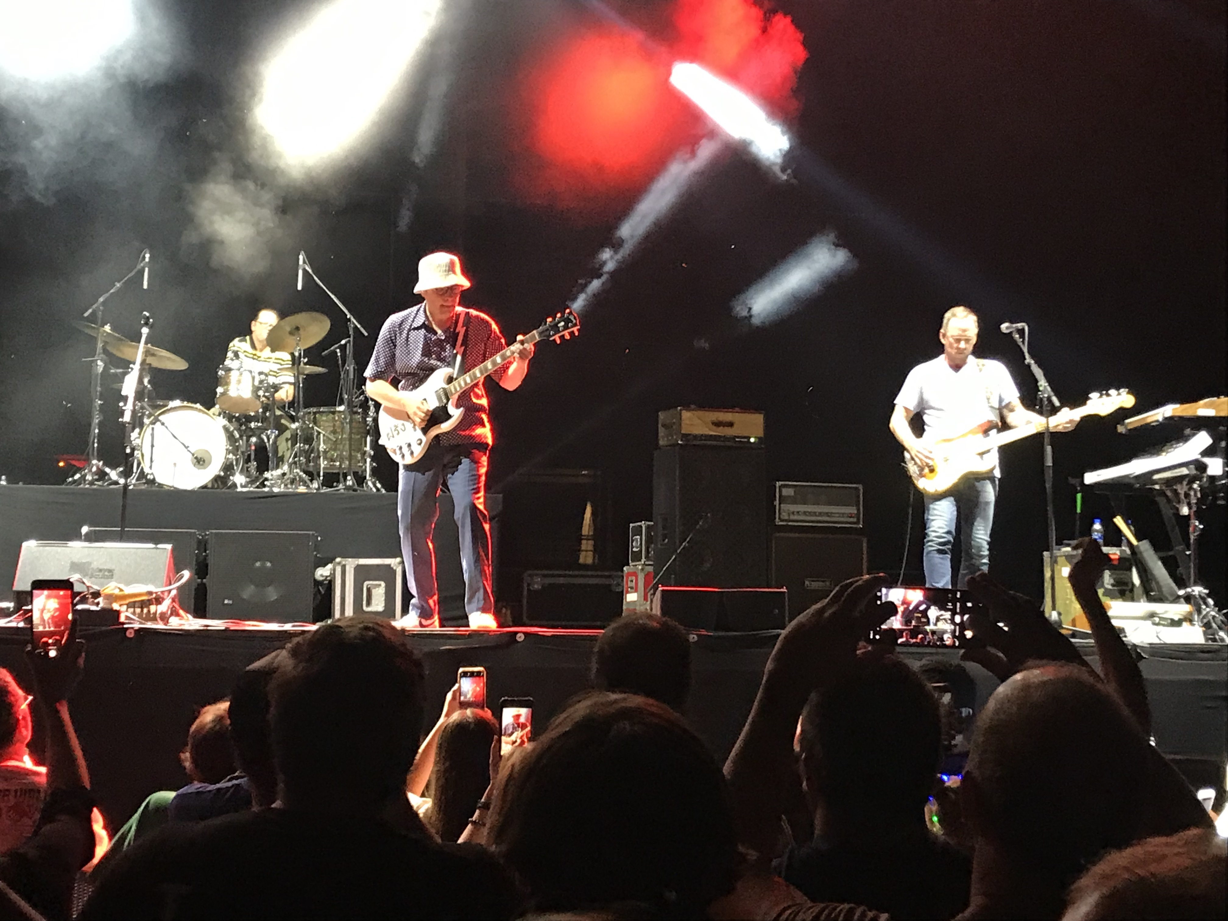 The band Weezer performing at Musikfest in Bethlehem, Pennsylvania on August 5, 2019.